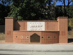 Early picture of the Beach Boys California State Historic Landmark. Taken May, 2005.